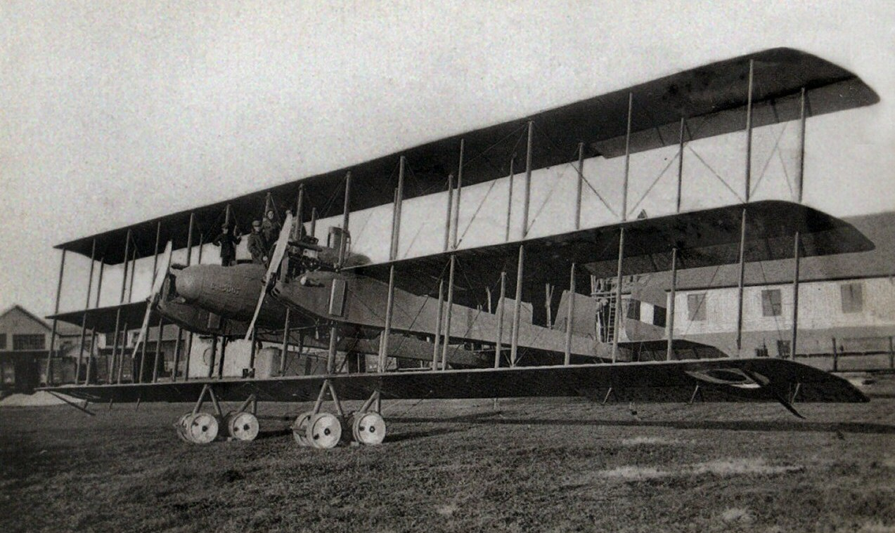 Caproni Ca.4